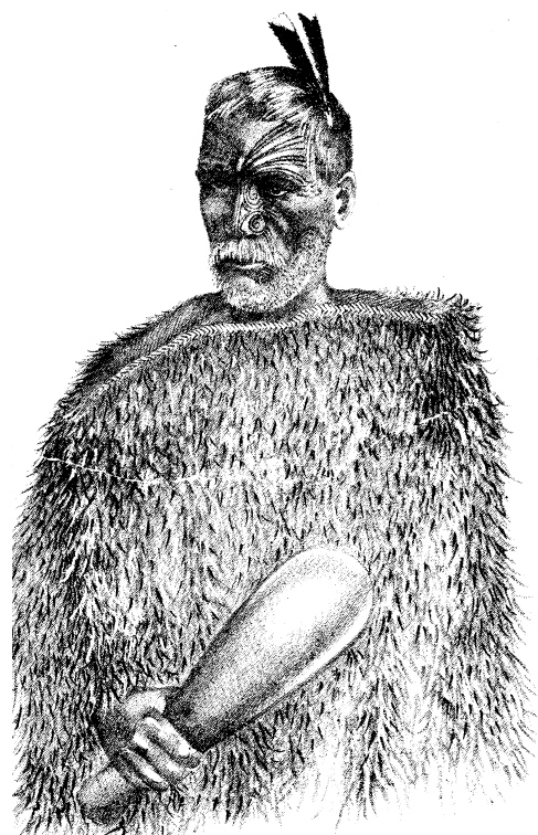 Māori chief, New Zealand, 19th century